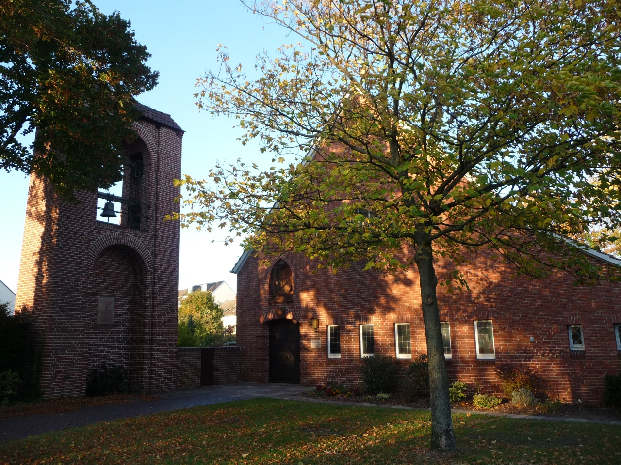 Andreas-Church in Bremen-Groepelingen